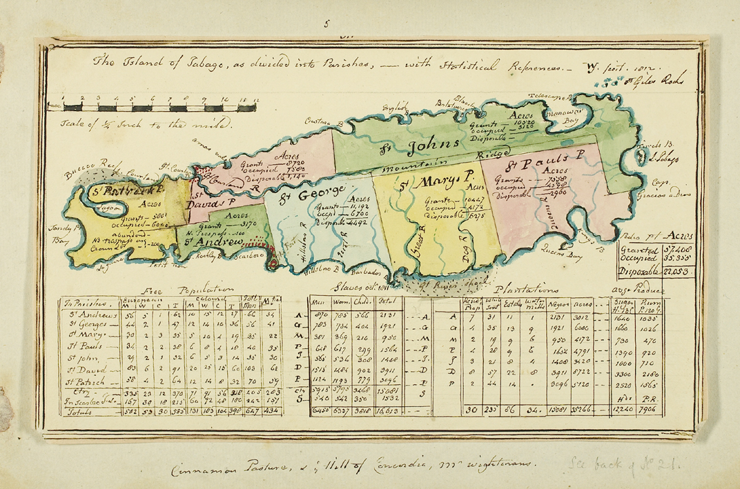 map of Tobago (Trinidad and Tobago), with subdivision into parishes